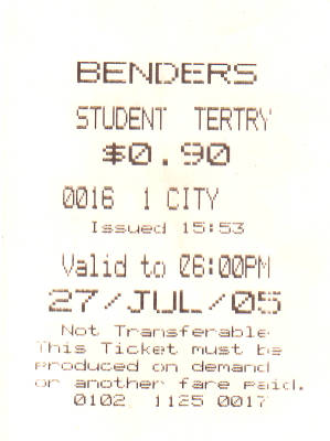 Geelong Transit System bus issue ticket